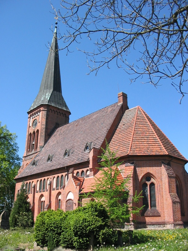 Kirche in Pampow (Germany)